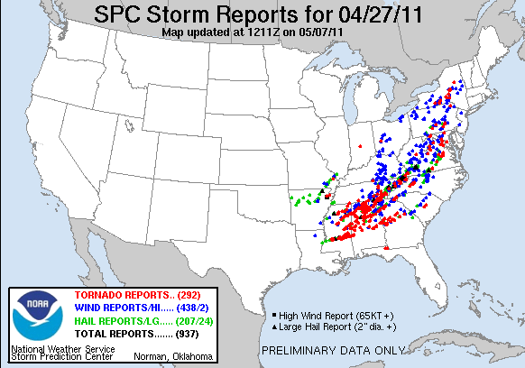 Plotted reported damages by tornadoes, hail and winds for the 24 hours period from April 27th, 2011 at 12 UTC to the 28th at 1159 UTC.